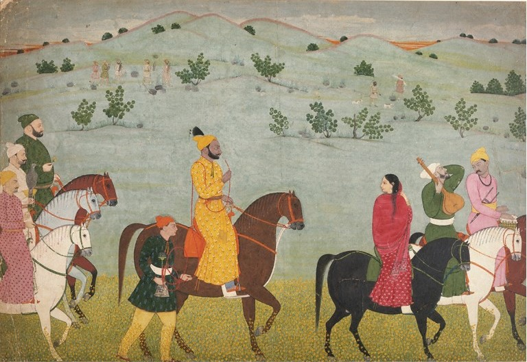 Mian Mukund Dev of Jasrota, (Cropped version) Pahari style, ca 1740-1745.